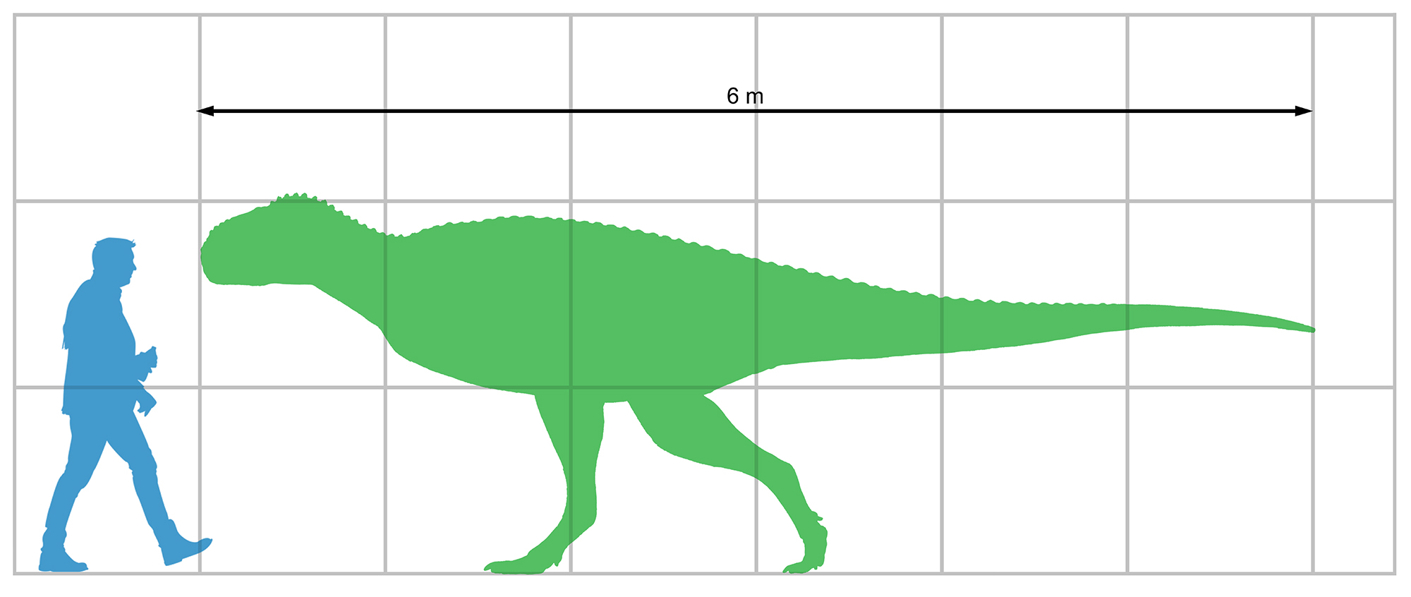 Size chart of Kryptops palaios